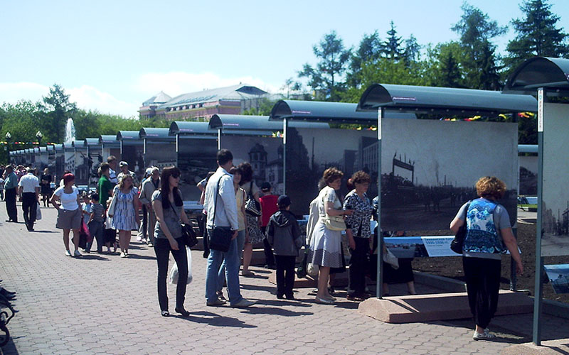 Old photos in Kirov's Square (Irkutsk)